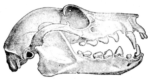 Fig. 256.—Skull of Pteropus fuscus. × 3⁄2. (After de Blainville.) In MSW3, synonym of P. niger.